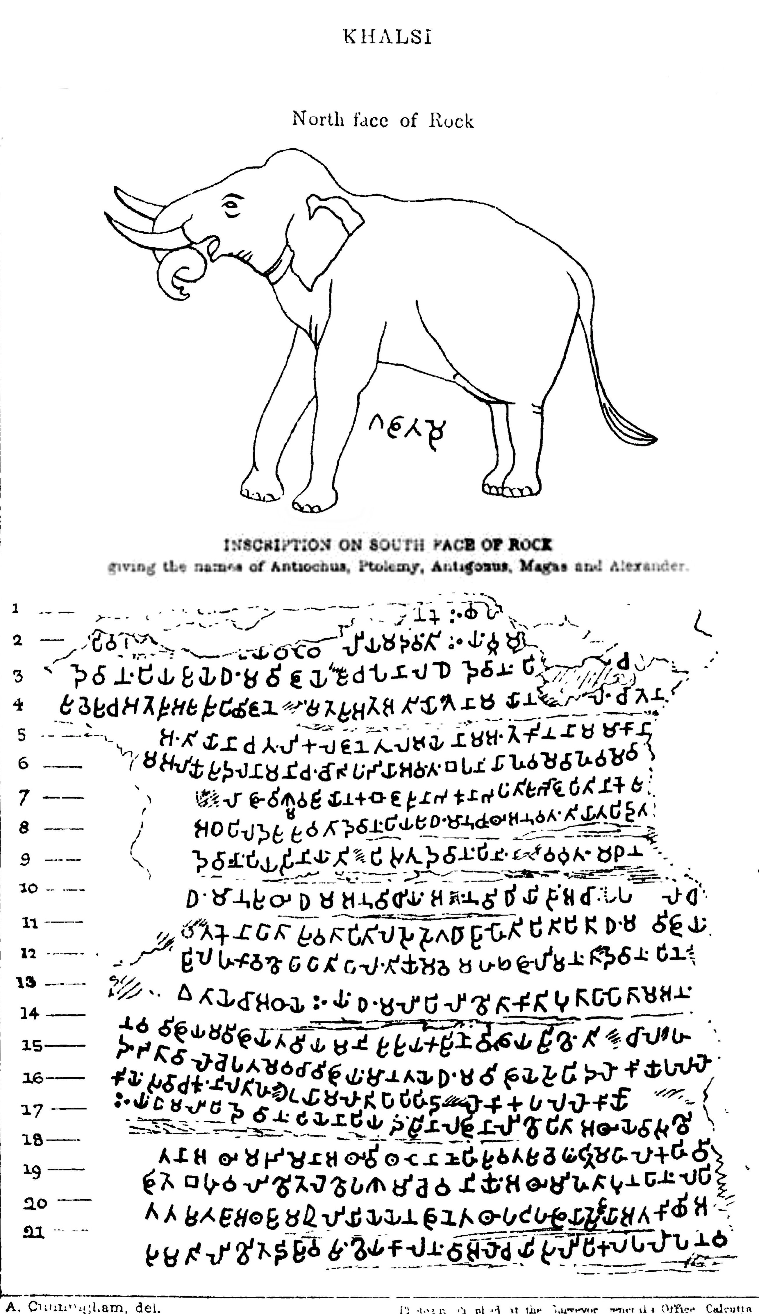 Khalsi rock edict of Ashoka. A photograph: [1]. Highlight of the names of the Greek rulers.